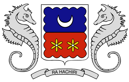 Coat of Arms of Mayotte, cropped from Image:Flag of Mayotte (local).svg